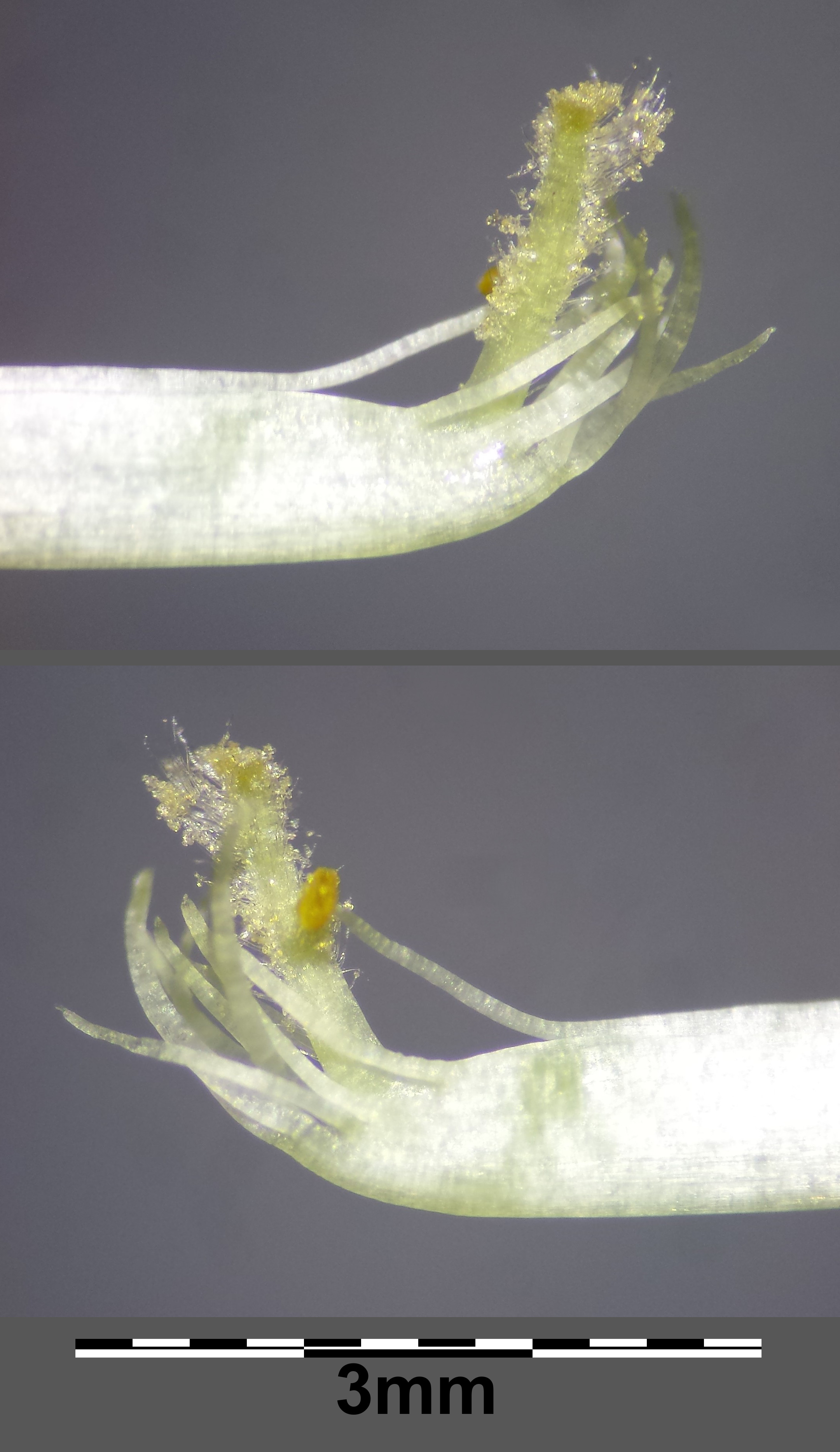 Front end of fused stamens and stylus Taxonym: Vicia cracca (s. strictiss.) ss Fischer et al. EfÖLS 2008 ISBN 978-3-85474-187-9 Location: Neue Donau, Vienna-Floridsdorf - ca. 160 m a.s.l. Habitat: bank slope